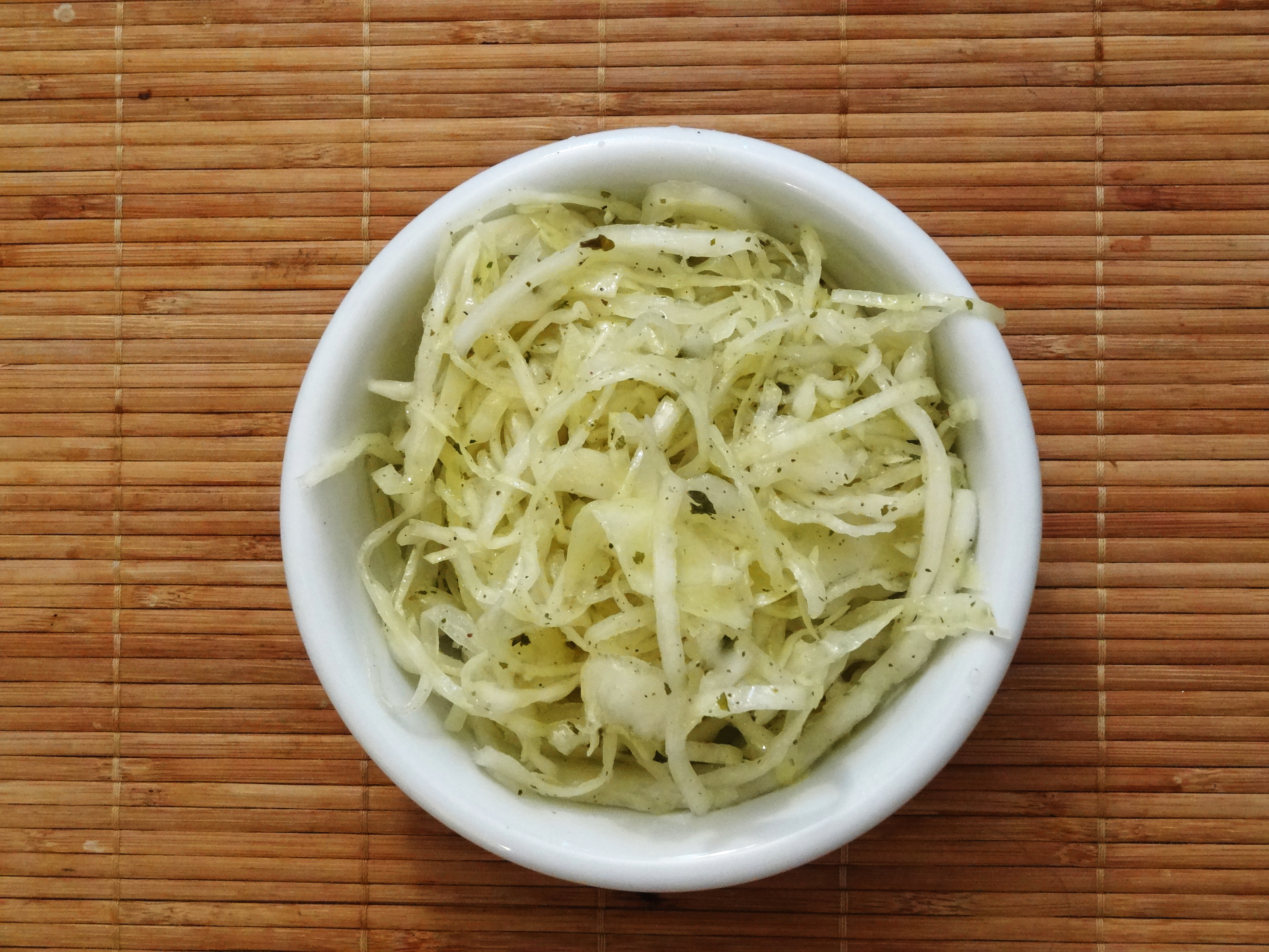 "Pizzasallad", made of white cabbage, is often served as a side dish alongside pizza in Sweden.